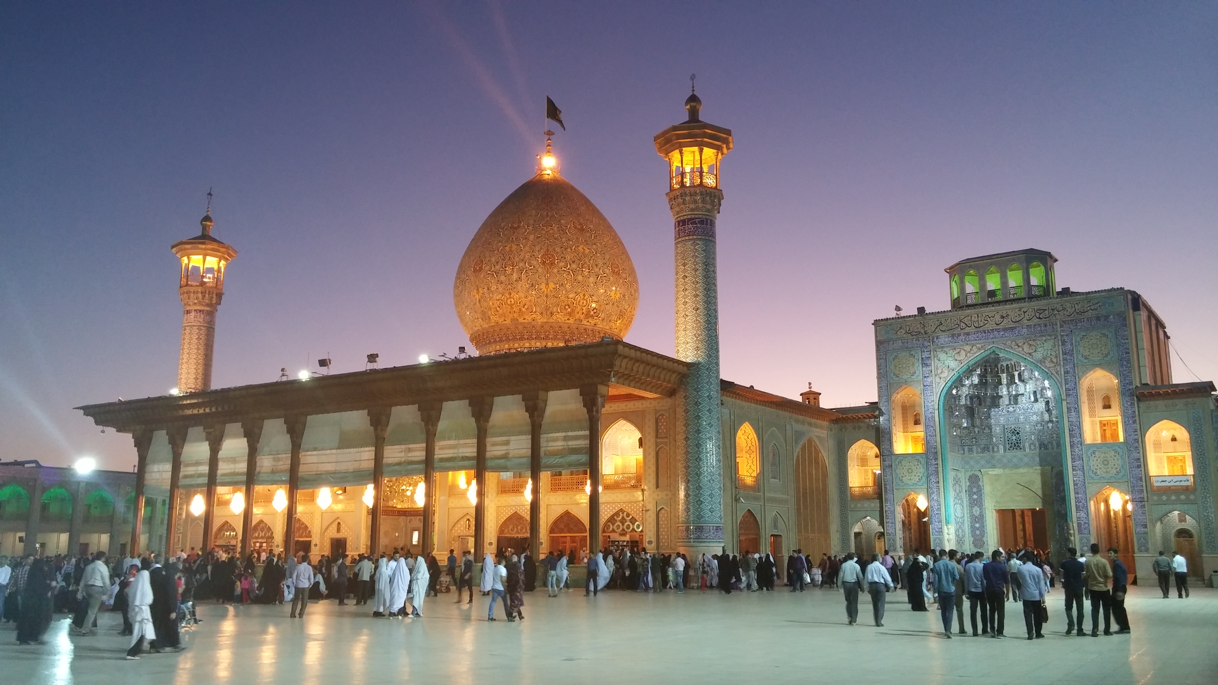 Shah Cheragh